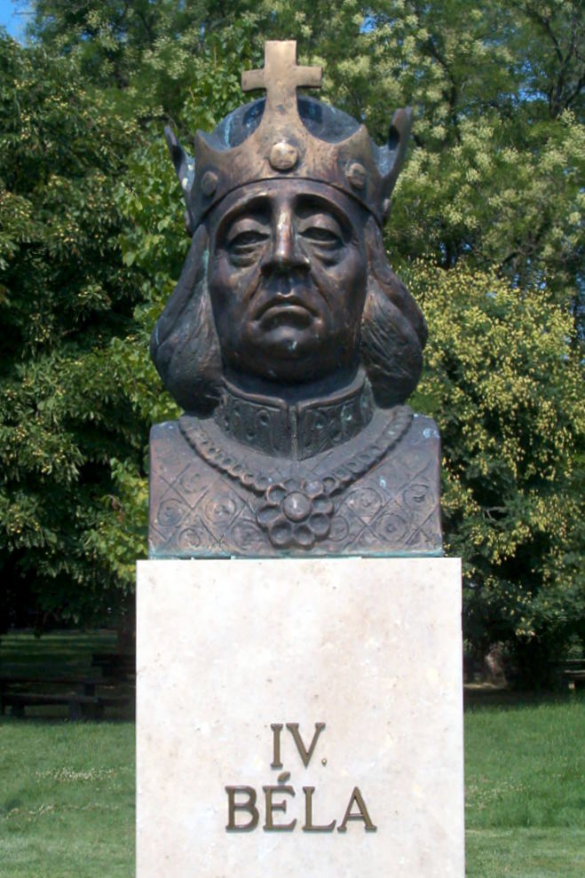 IV. Béla király National Historical Memorial Park in Ópusztaszer, Hungary (Szabolcs Péter alkotása)